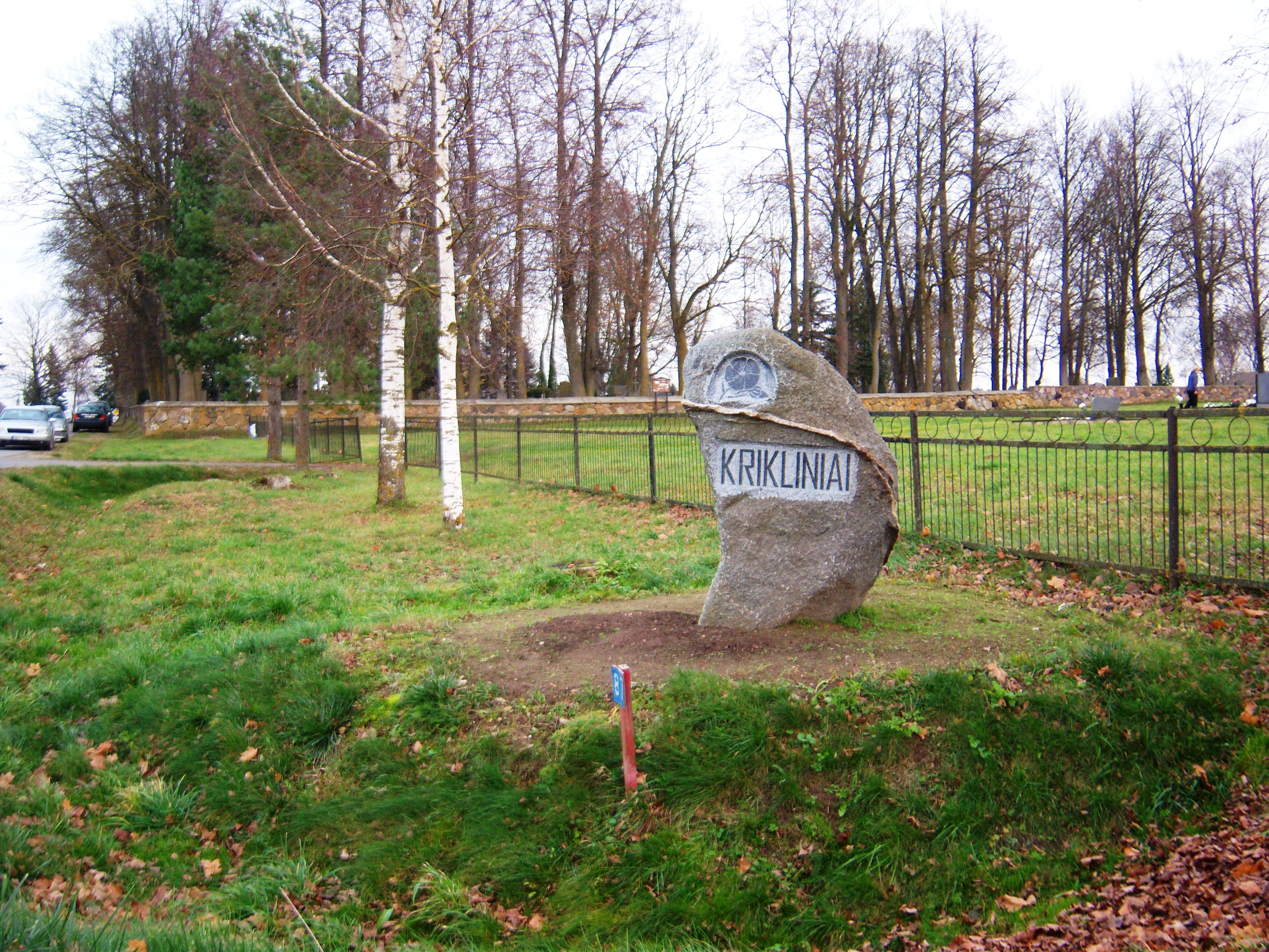 Krikliniai stone, Pasvalys District, Lithuania